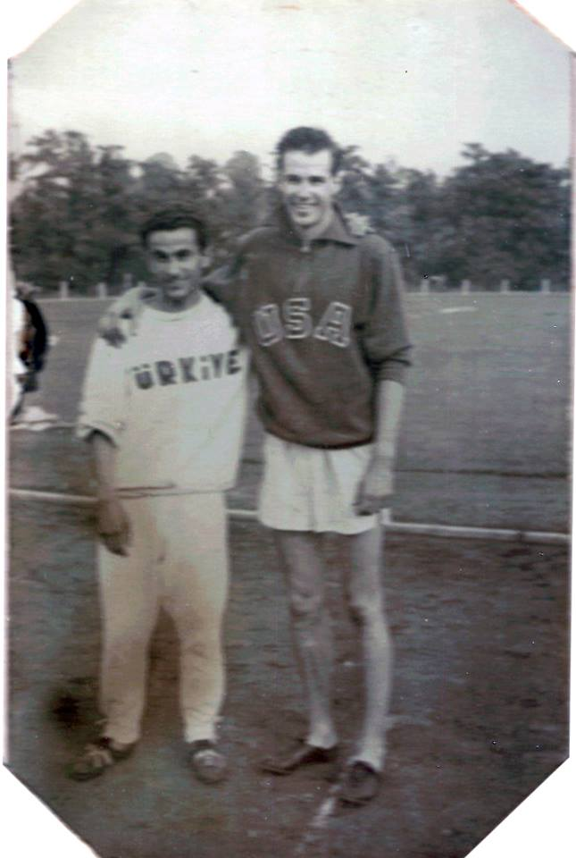 Raşit Öztaş together with an athlete from the USATürkçe: Raşit Öztaş ABD'den bir atletle birlikte